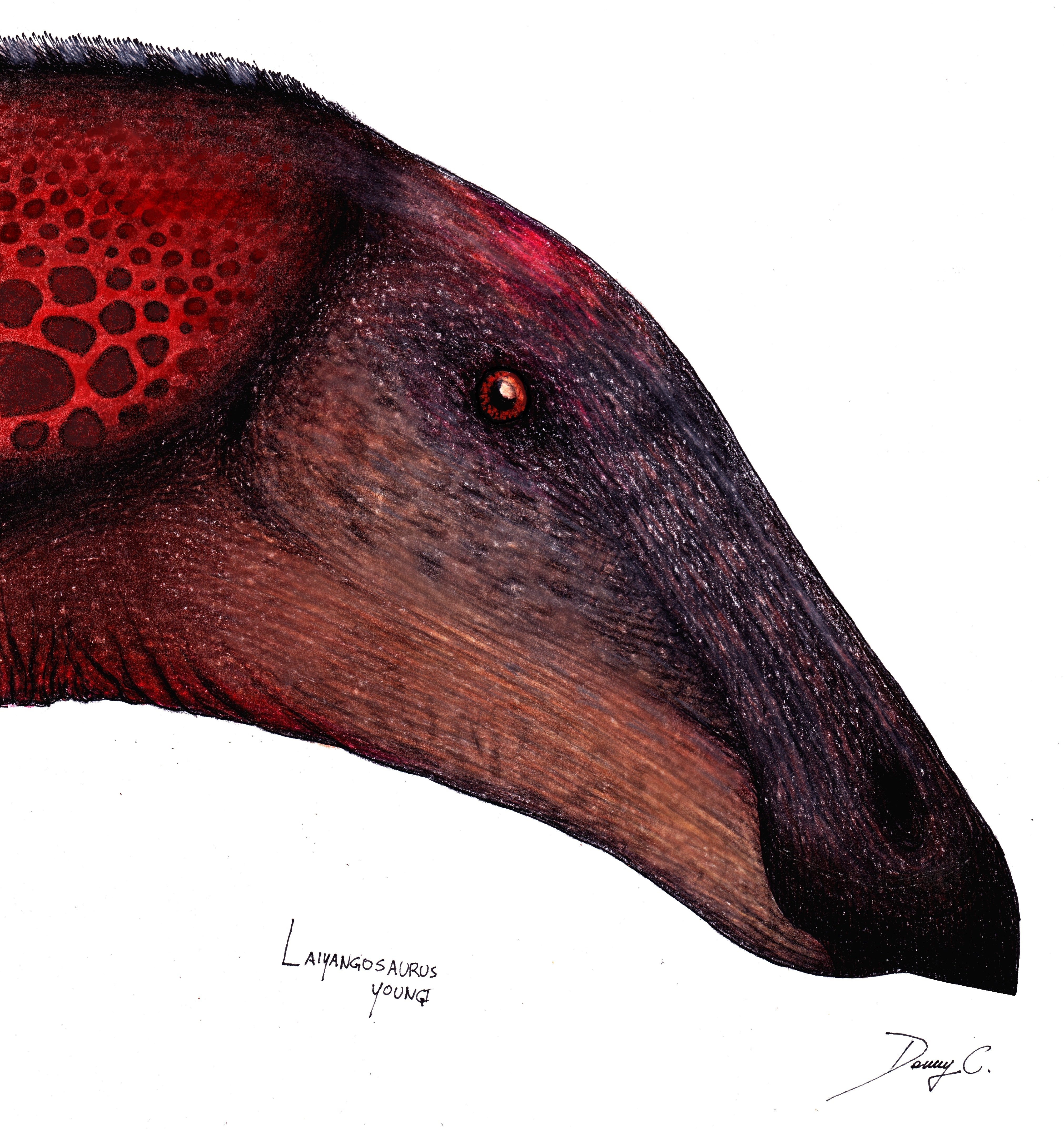 Restoration